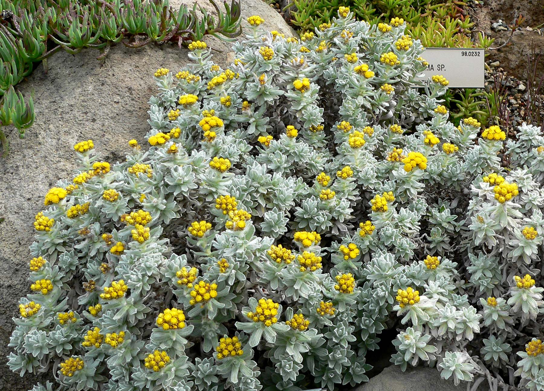 Photo of Helichrysum splendidum at the University of California Botanical Garden